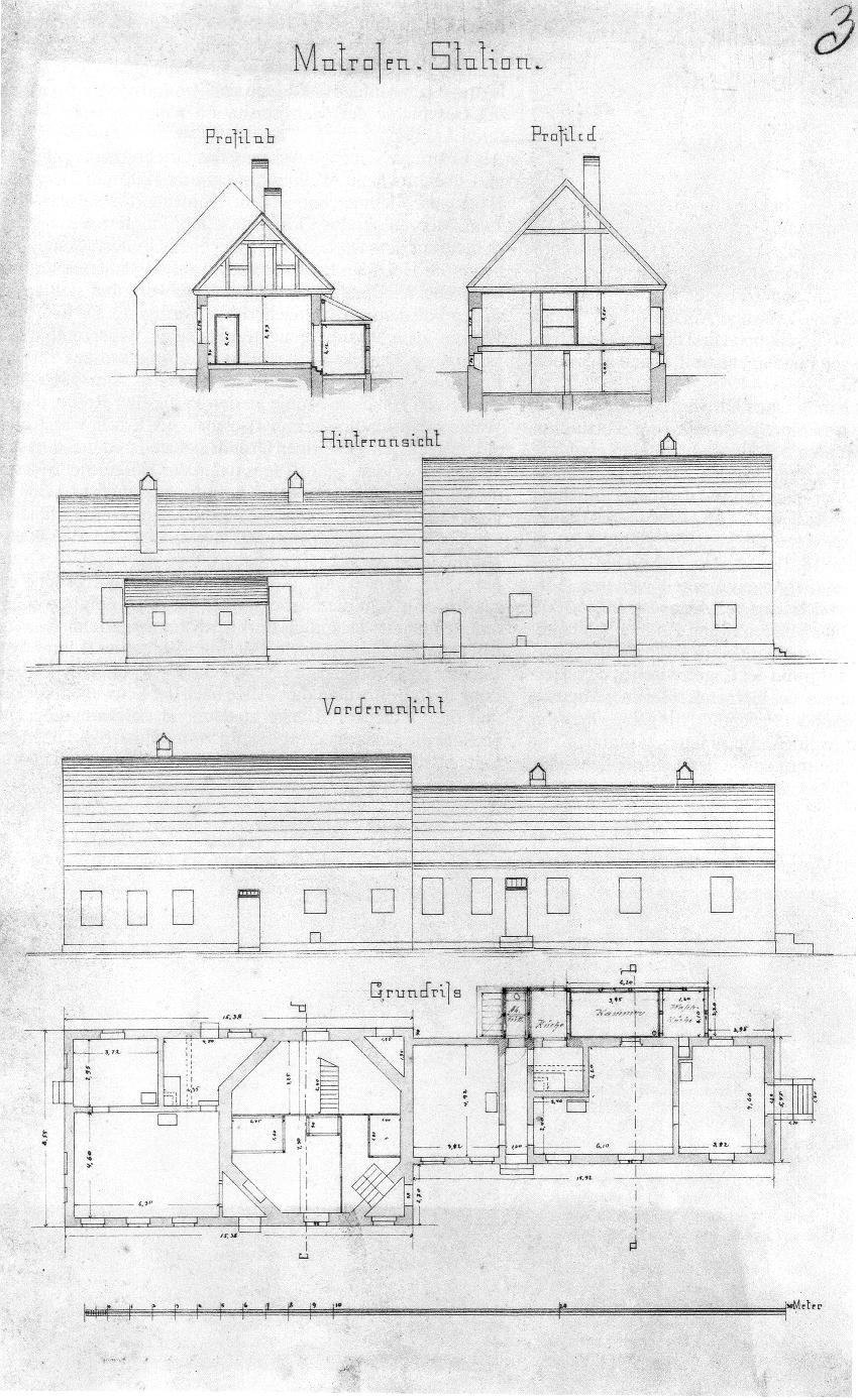 Ground plan, views, sections. Mill house No. 7, (sailors' station), Potsdam, Germany